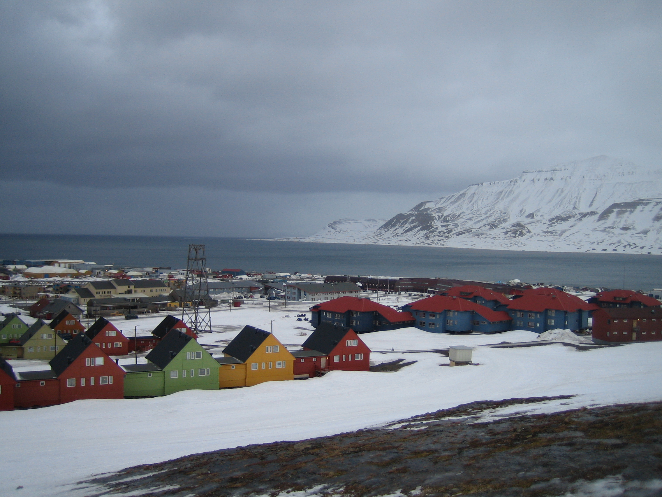 View upon Longyearbyen from uphill towards the fjord